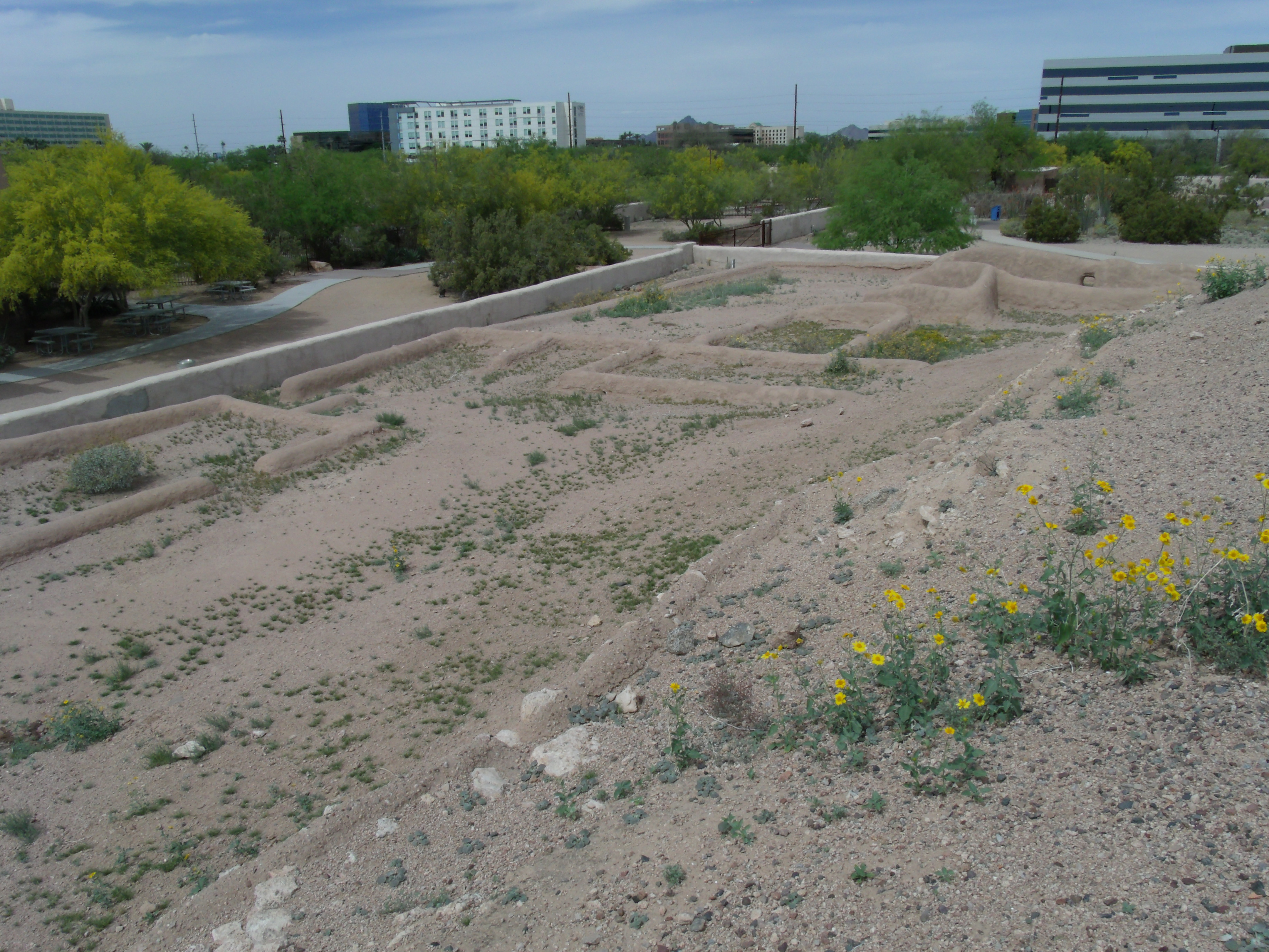 Different view of the Hohokam Village. The ruins are listed in the National Register of Historic Places reference #66000184.